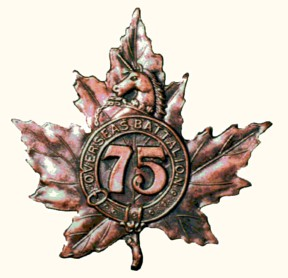 Image of the 75th Battalion cap badge.